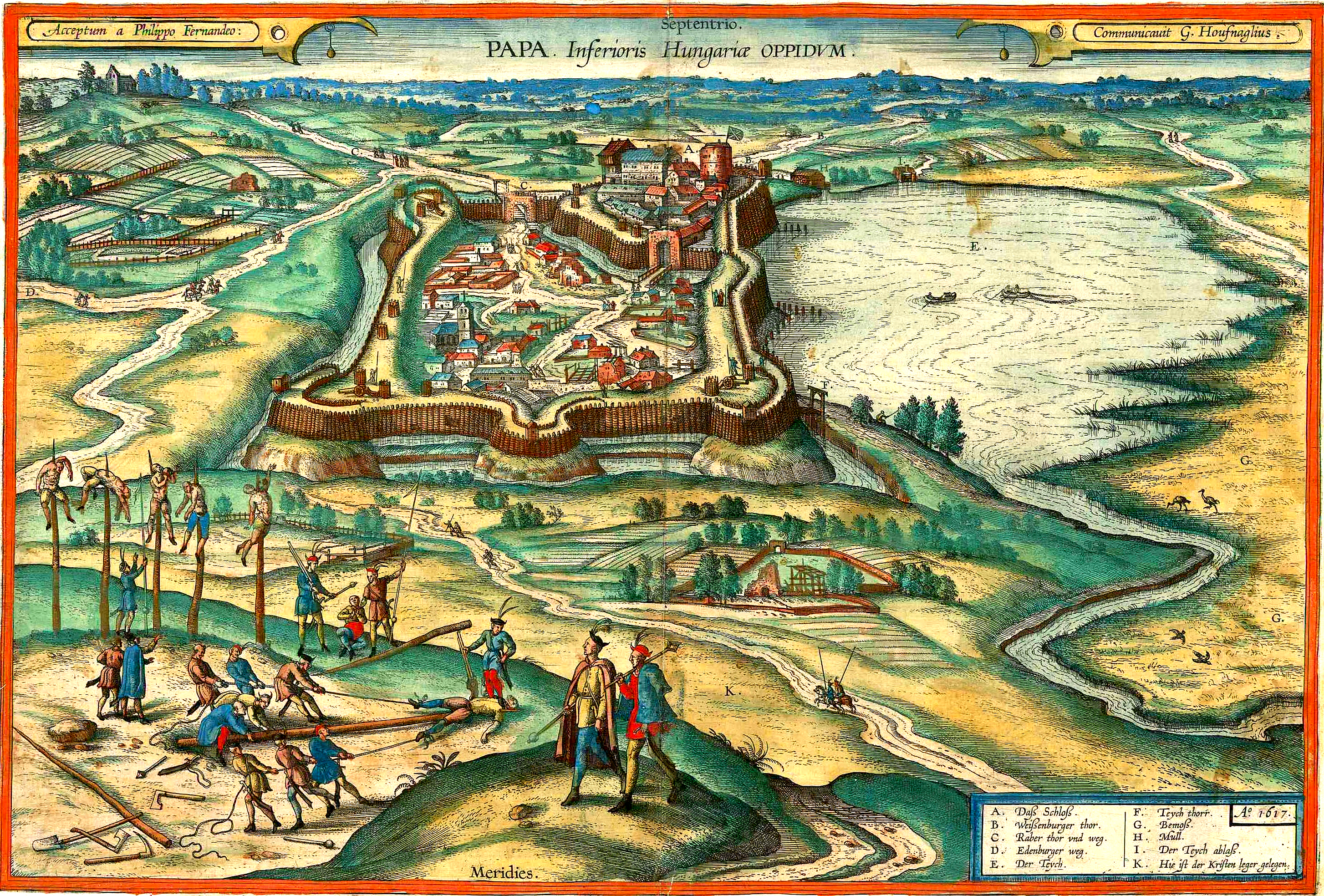 Engraving of the Pápa castle by Georgius Houfnaglius from 1617, in the foreground probably depicting the execution of the mutinous Walloon mercenaries in 1600